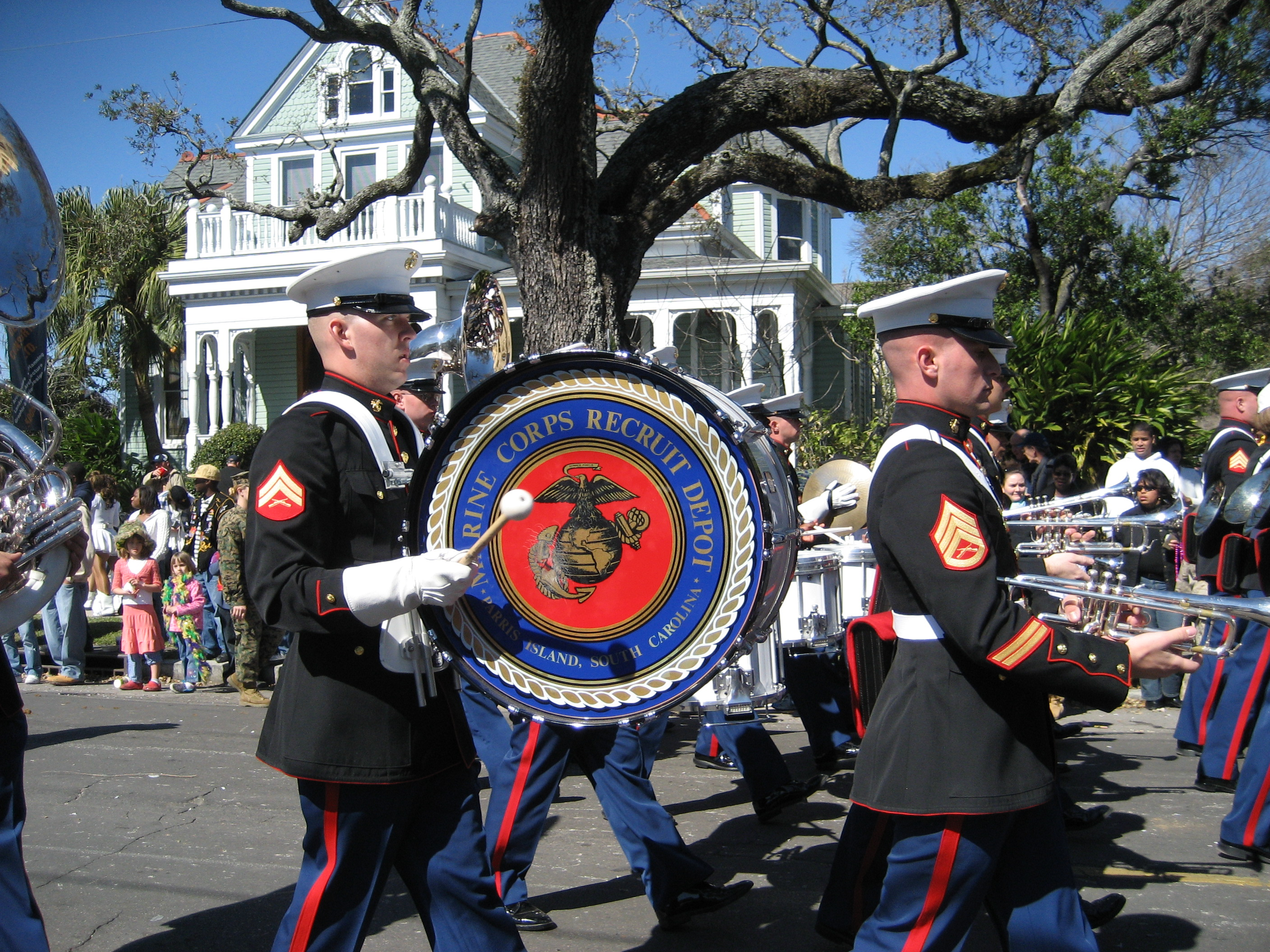 New Orleans carnival: Krewe of Thoth Parade, 2007 on Magazine Street. Bass drummer with Marine band